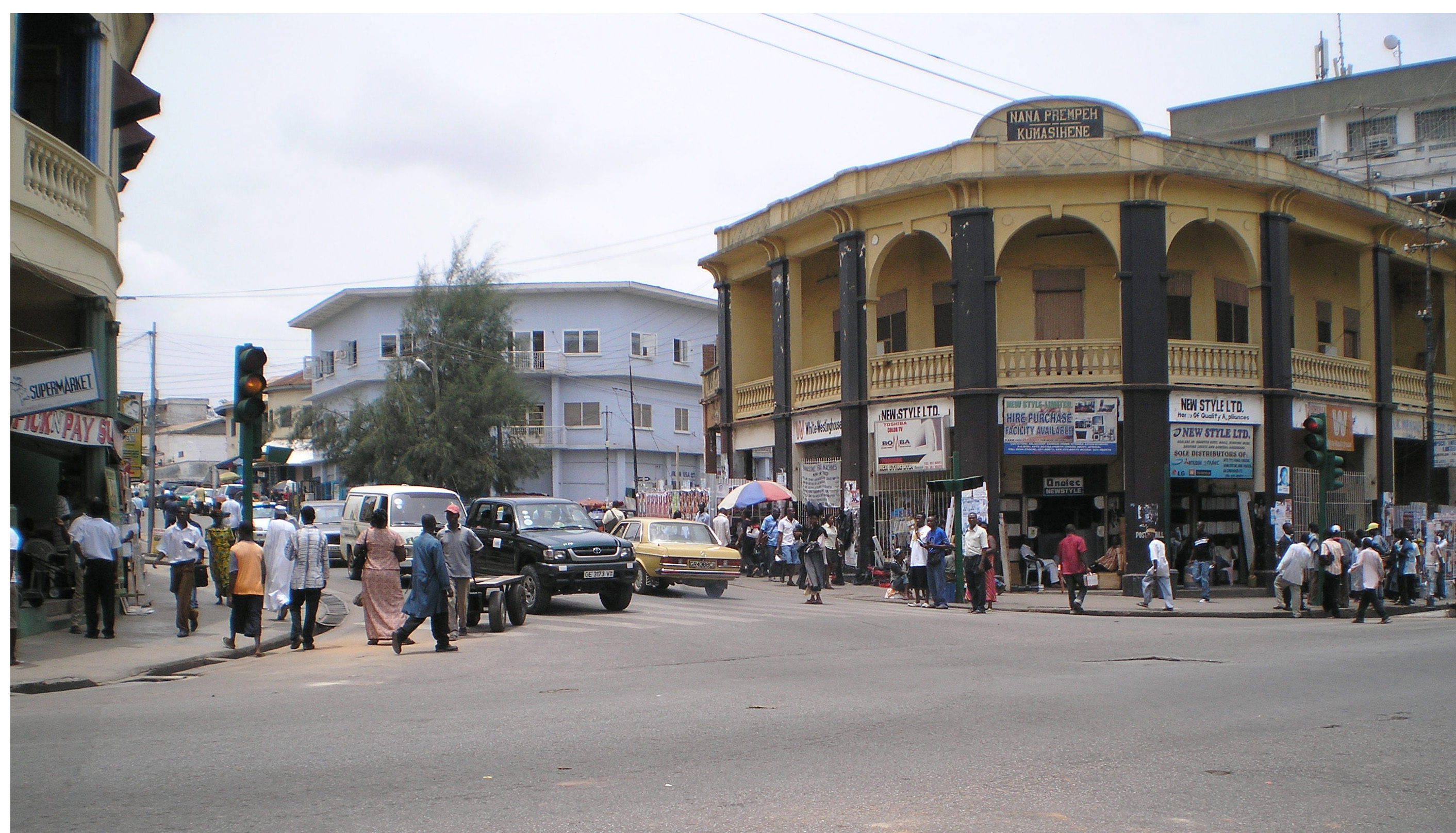 A side street of a street market in Kumasi, Ghana in March 2005